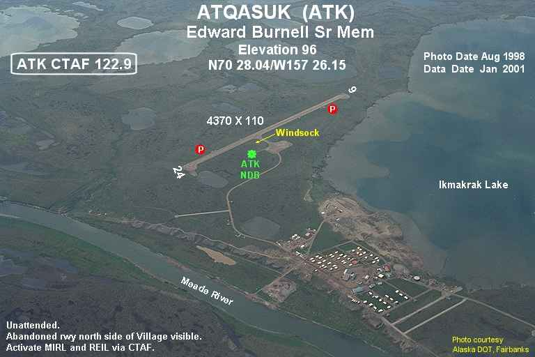 Annotated aerial photograph of Atqasuk Edward Burnell Sr. Memorial Airport (FAA: ATK) in Atqasuk, Alaska, United States.